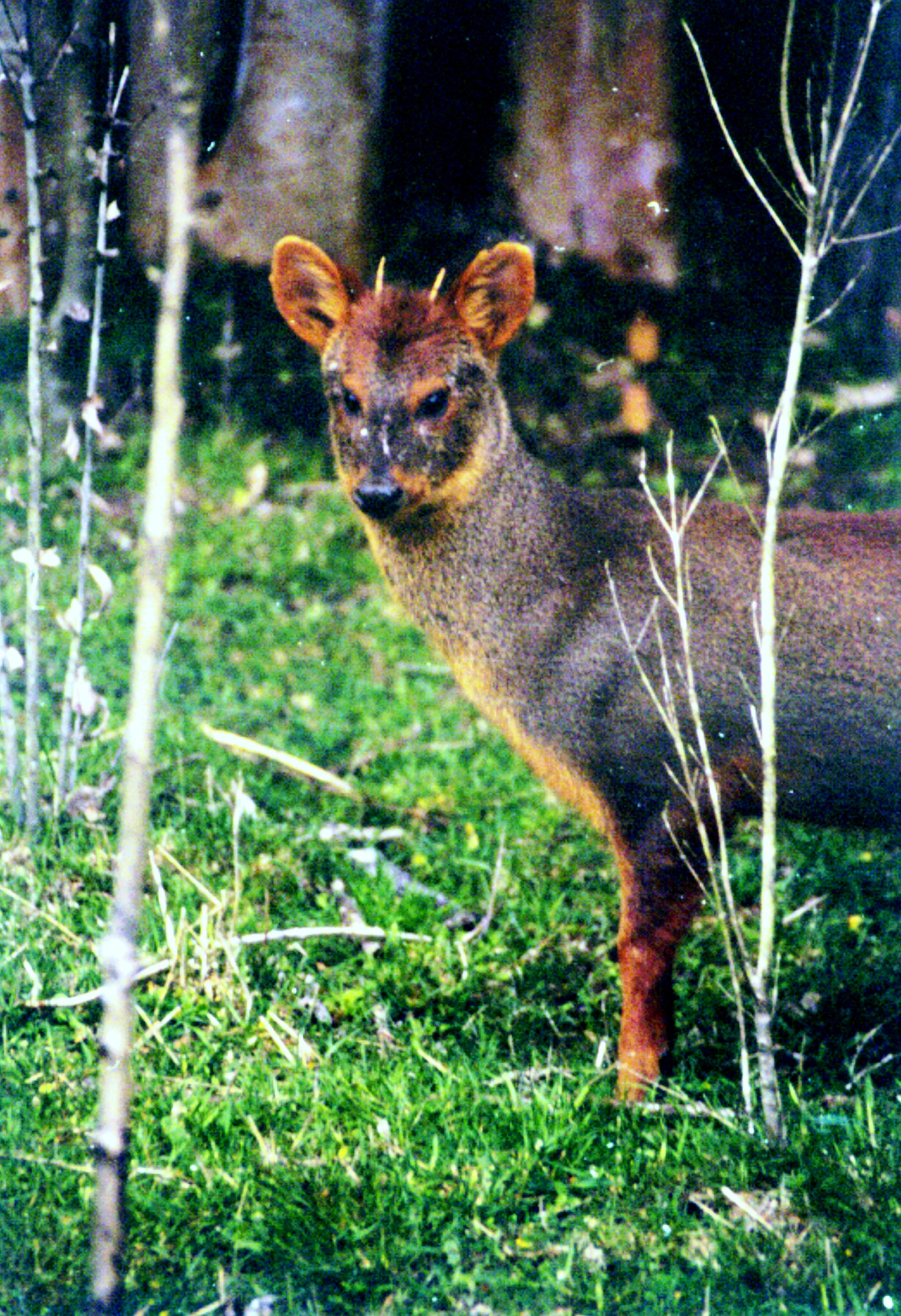 A male Pudú (Pudu puda), Los Lagos Region, Chile, November 2001